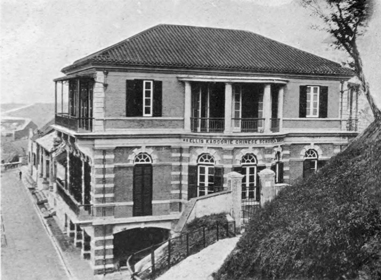 Ellis Kadoorie Chinese Schools Society